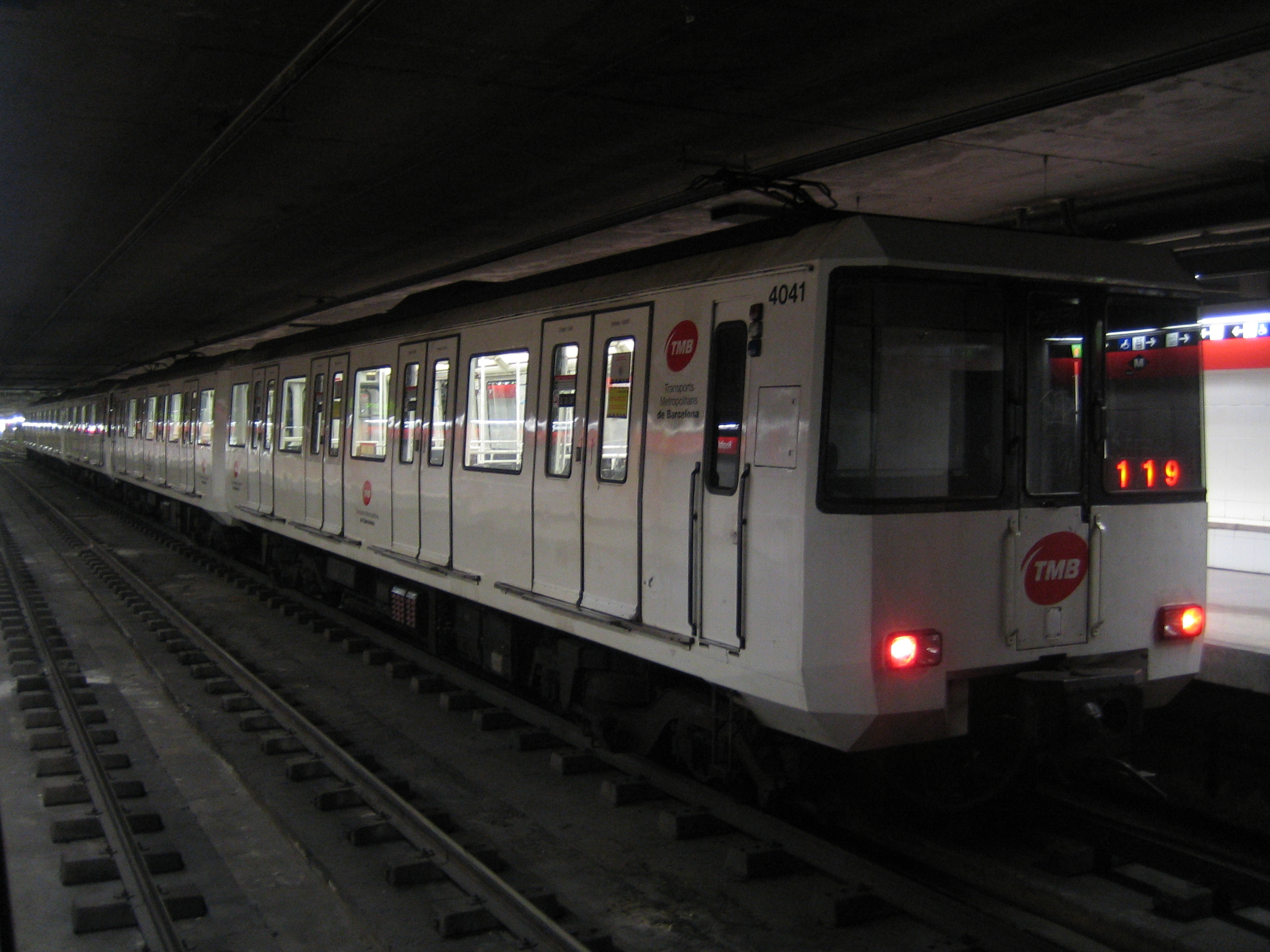 Train type 4000 of Barcelona's metro at Hospital de Bellvitge station